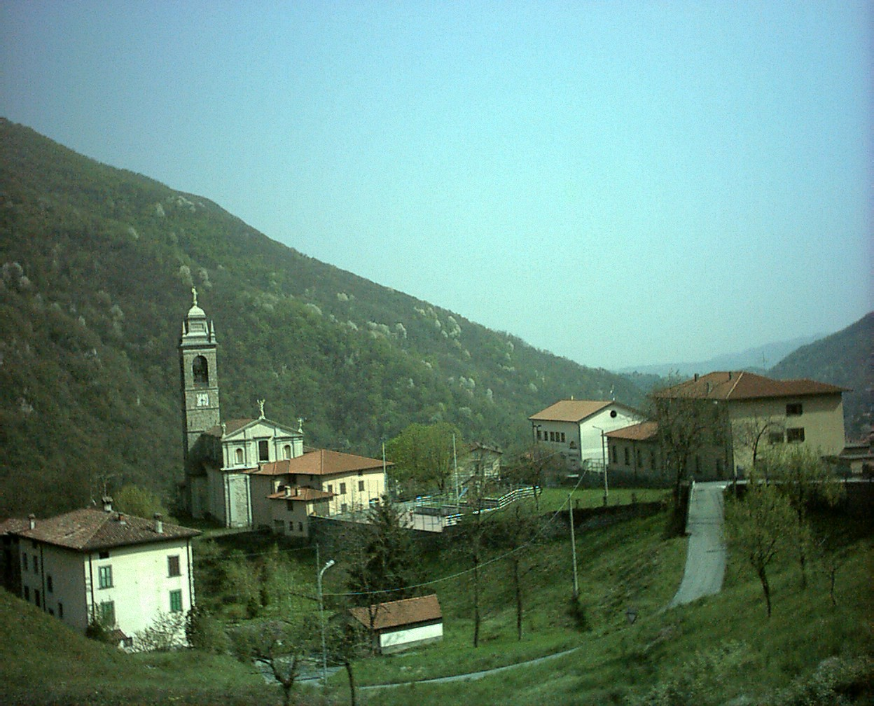 View of Strozza, Bergamo, Italy